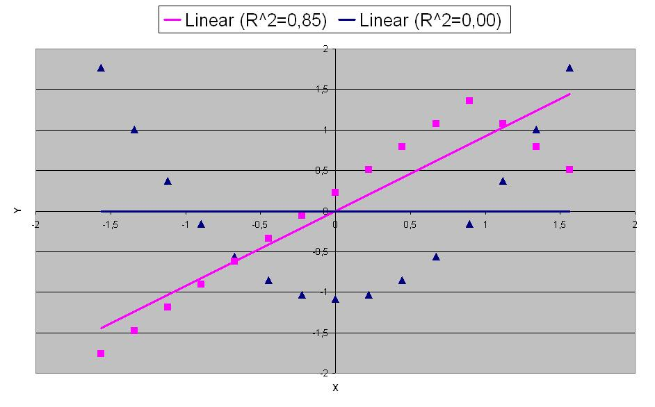 Examples for small and high R square values.